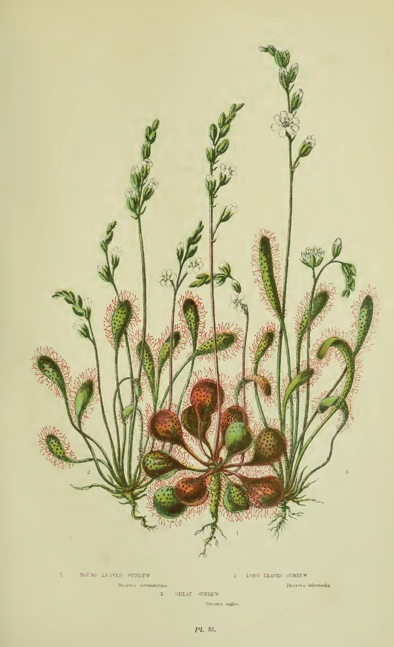 "The Flowering Plants, Grasses, Sedges and Ferns of Great Britain", Volume 1 of 6, Plate 35